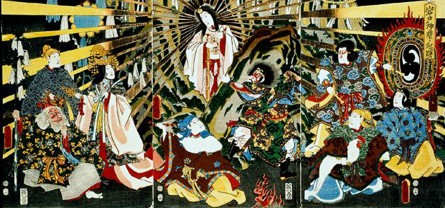 An image of the Japanese Sun goddess Amaterasu emerging from a cave.